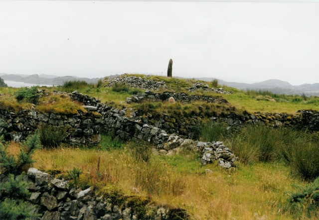 Sheep folds beside Kintraw stone Sheep pens, or the remains of an old village? These appear to be an elaborate set of sheep pens - with several internal divisions to hold sheep as they were sorted for various reasons after being gathered off the hill.